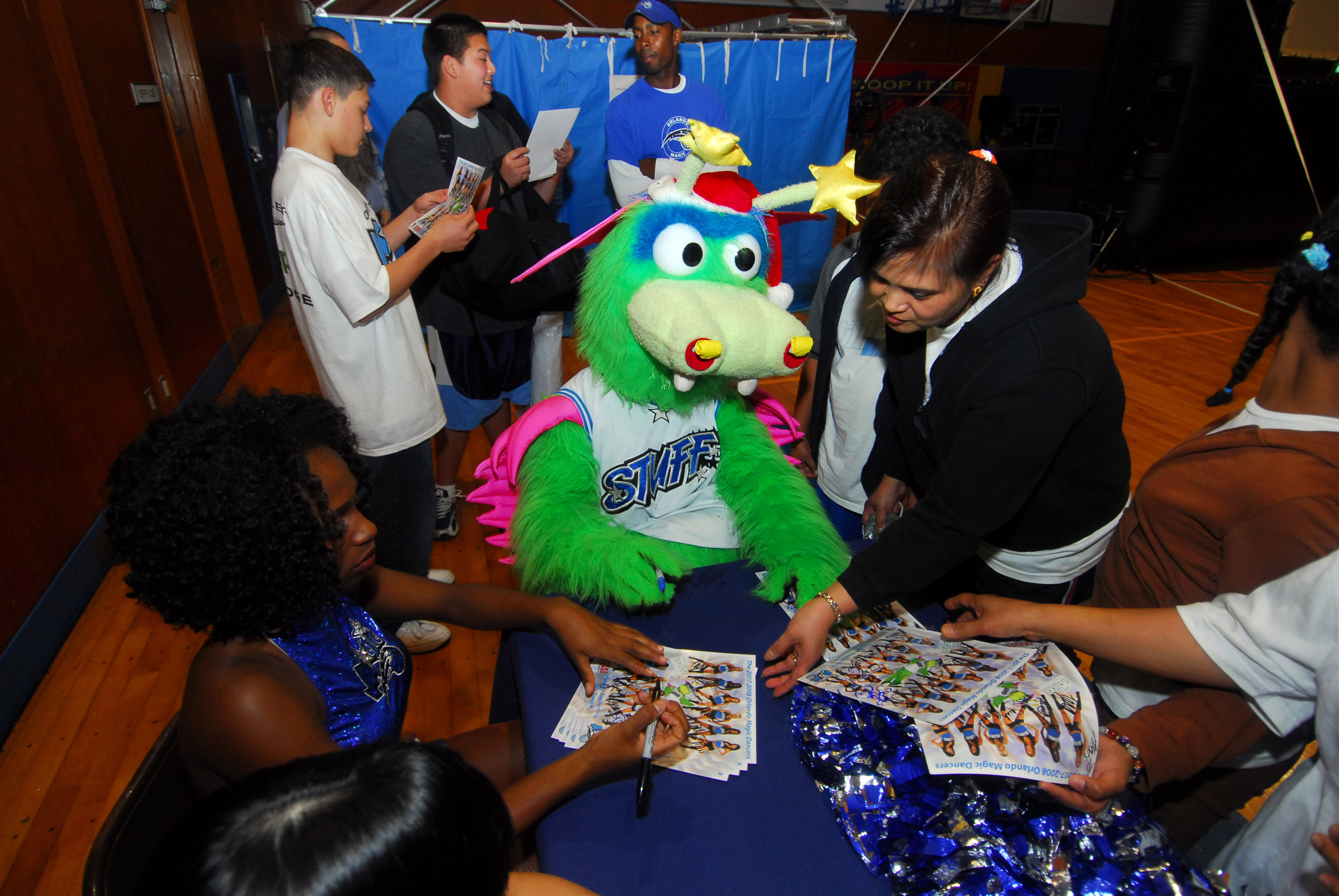 SASEBO, Japan (Nov. 27, 2007) Members of the Orlando Magic Dancers and STUFF the Magic Dragon sign autographs for Sasebo Sailors and their families during the Pacific-leg of an Armed Forces Entertainment tour. U.S. Navy photo by Mass Communication Specialist 2nd Class David Didier (Released)SASEBO, Japan (Nov. 27, 2007) Members of the Orlando Magic Dancers sign autographs for Sasebo Sailors and their families during the Pacific-leg of an Armed Forces Entertainment tour. U.S. Navy photo by Mass Communication Specialist 2nd Class David Didier (Released)